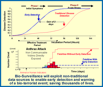 Graphic from the Information Awareness Office's website describing the goals of the Bio-Surveillance project